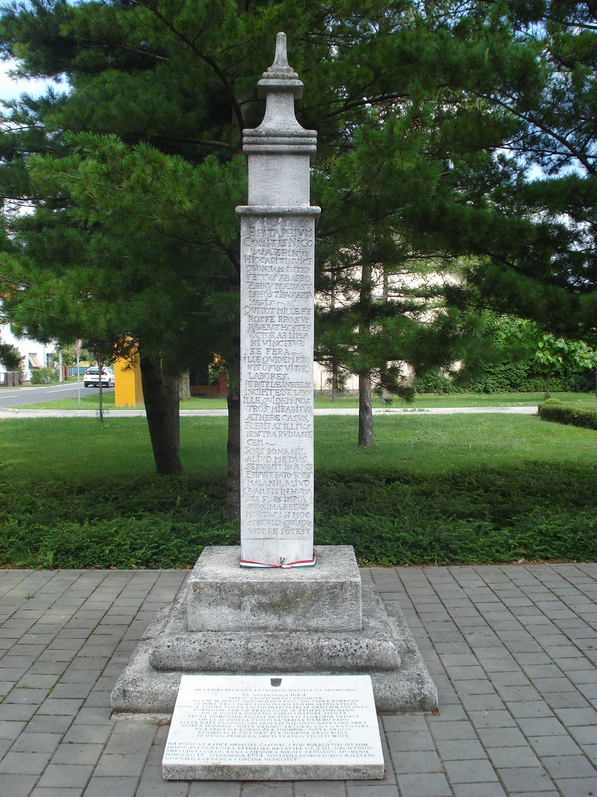 Memorial to Nikola Zrinski (1620-1664), Ban (viceroy) of Croatia, at the place of his death in Gornji Kuršanec, Medjimurje County